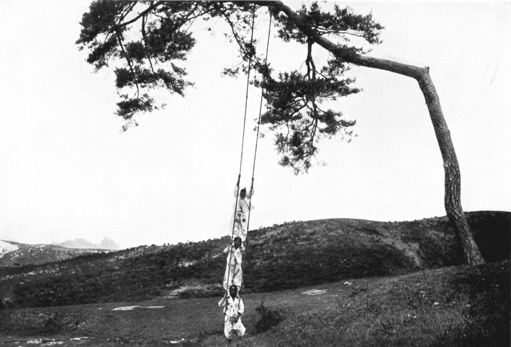 Swinging, Korea, c1900; /373. The passing of Korea (book)